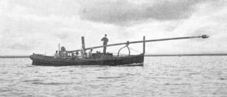 19th_century_Spar_torpedo_boat. Very similar in appearance to the boat filmed by G.West and Sons in around 1897 for which there is extant moving film available. See also: Our Navy Website - 'Extant Films' section.